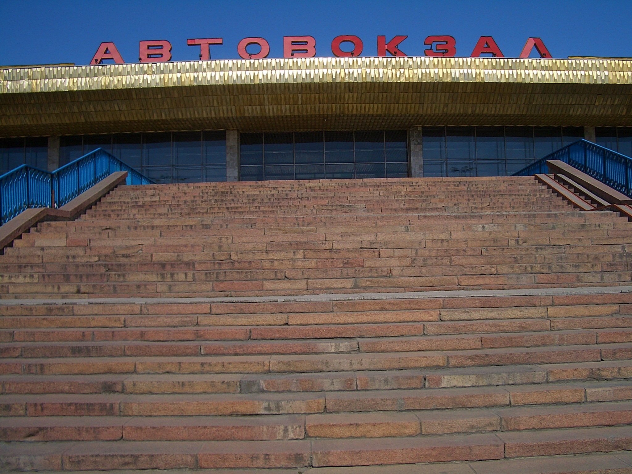 Few people ascend the monumental steps of Bishkek's West (New) Bus Terminal these days, as most passengers board vans and buses from the little plaza east of the terminal, and buy their tickets from the driver.